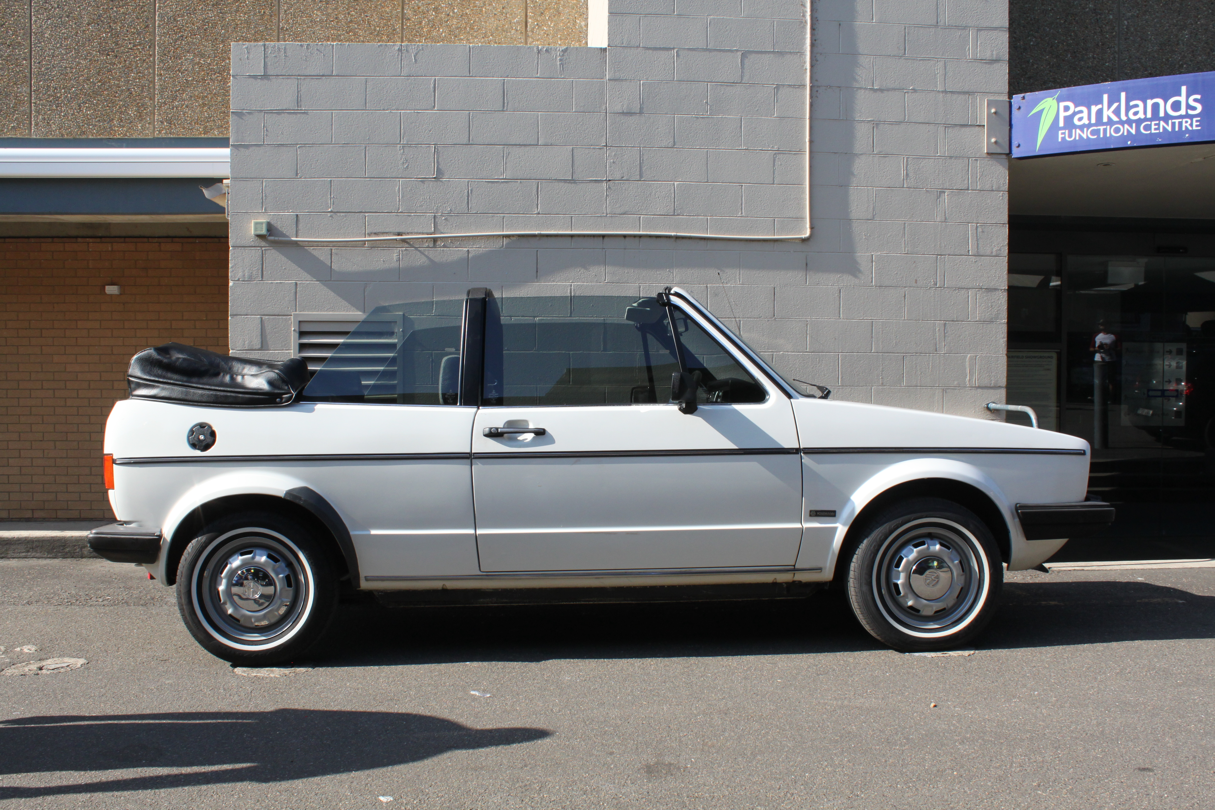 Volkswagen Nationals, Fairfield Showground, NSW May 2016